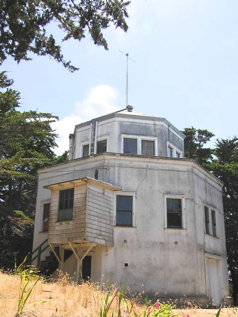 Octagonal building, Fort Miley Military Reservation, San Francisco, California, USA